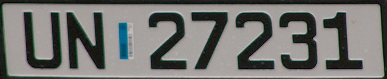 Norwegian license plate from 2001-2006